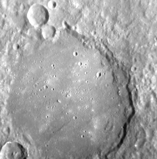 Unkei crater on Mercury. MESSENGER Narrow Angle Camera. North is at right. Emission Angle: 16.7 Incidence Angle: 66.3 Latitude: -31.3 Longitude: 297.8 Phase Angle: 49.6